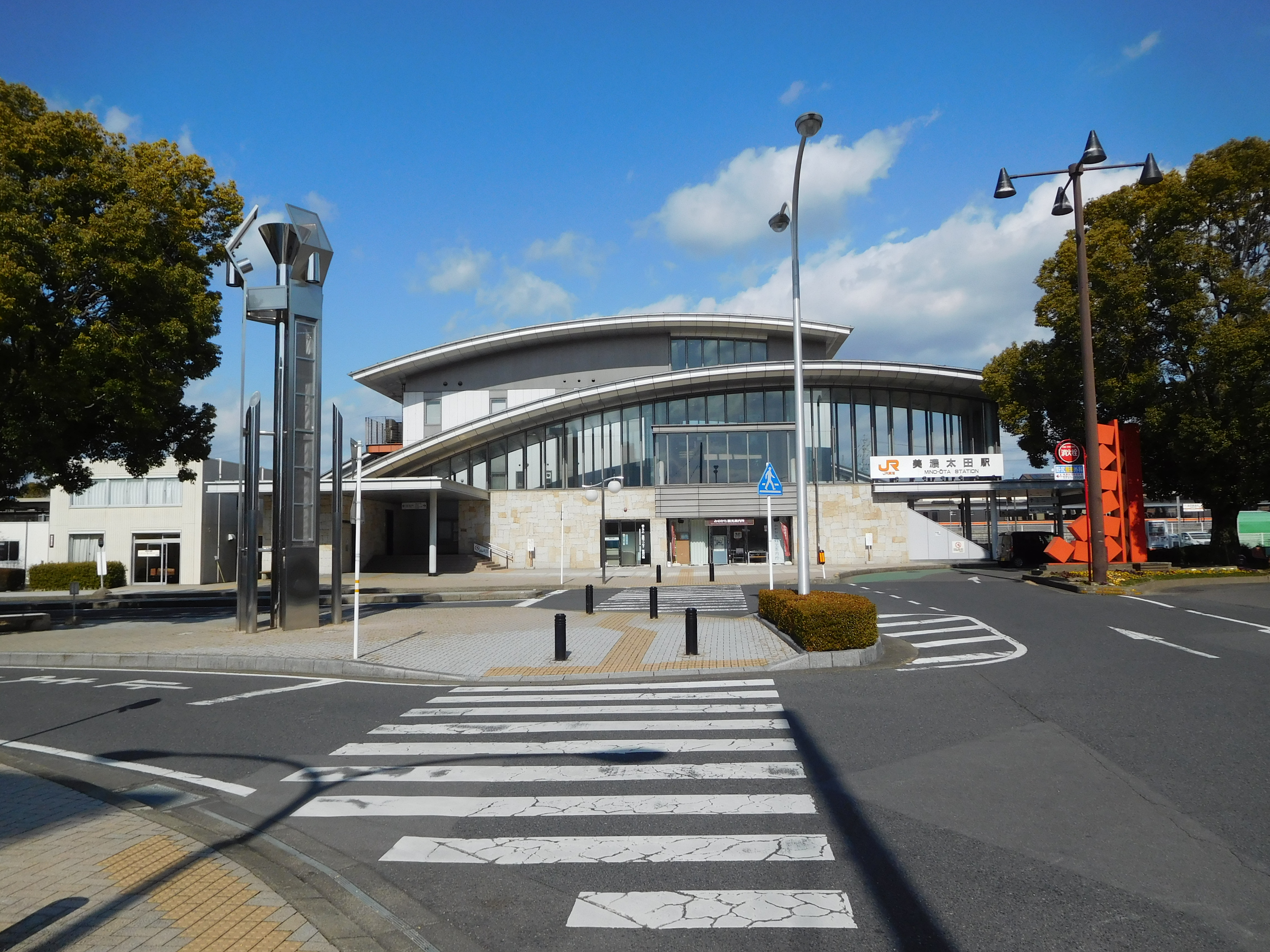 This is the south exit of Mino-ōta station in Minokamo, Gifu, Japan.